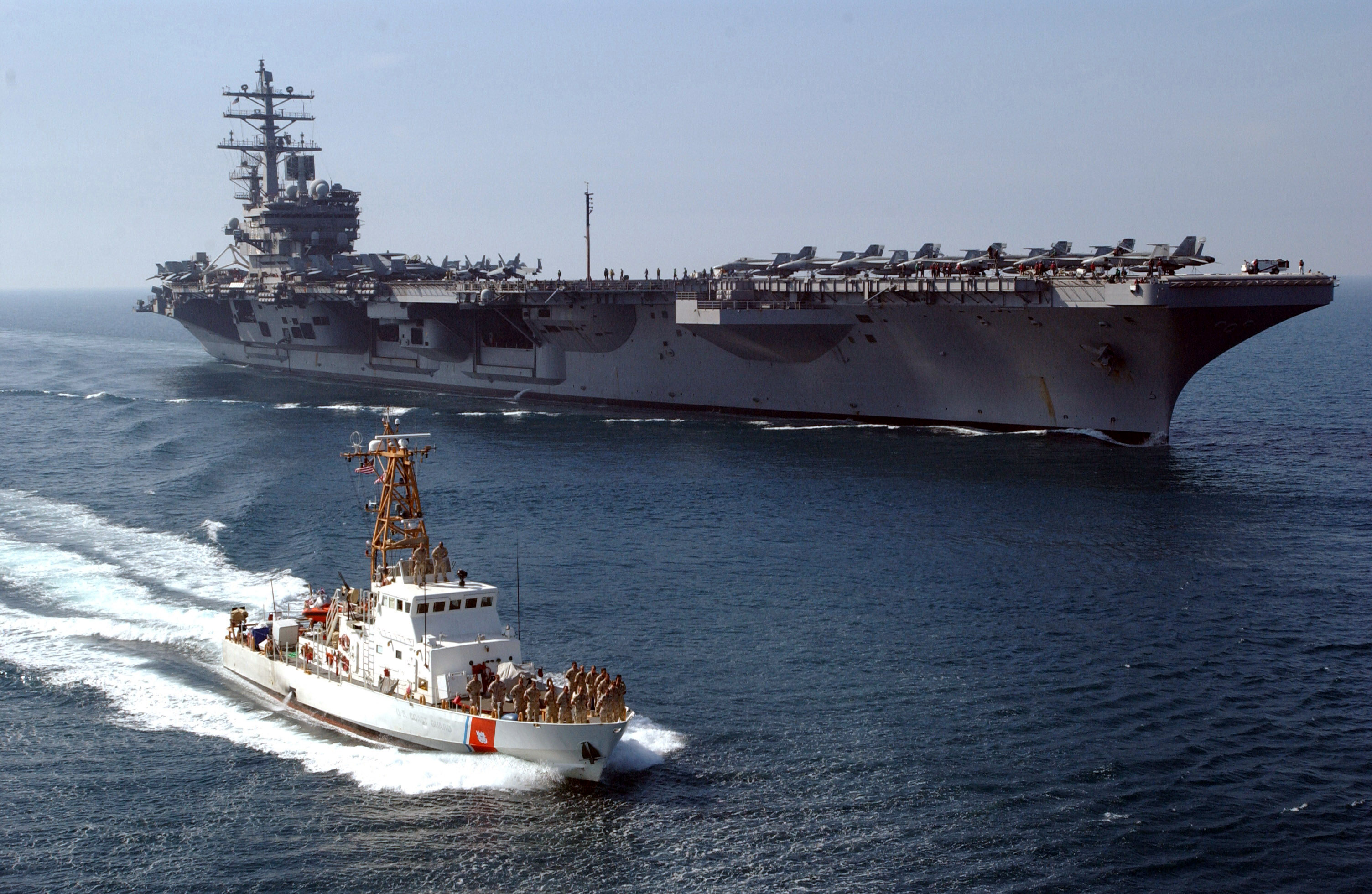 Persian Gulf (March 8, 2006) - United States Coast Guard members stationed aboard the patrol boat USCGC Wrangell (WPB 1322) view flight operations aboard the Nimitz-class aircraft carrier USS Ronald Reagan (CVN 76). The Coast Guard Cutter came alongside the Navy's newest aircraft carrier to have a photograph taken and to take in the view of flight operations aboard the aircraft carrier. Reagan with her embarked Carrier Air Wing One Four (CVW-14) is currently on her maiden deployment conducting Maritime Security Operations (MSO) in the region and participating in the global war on terrorism. U.S. Navy photo by Chief Photographer’s Mate Spike Call (RELEASED)